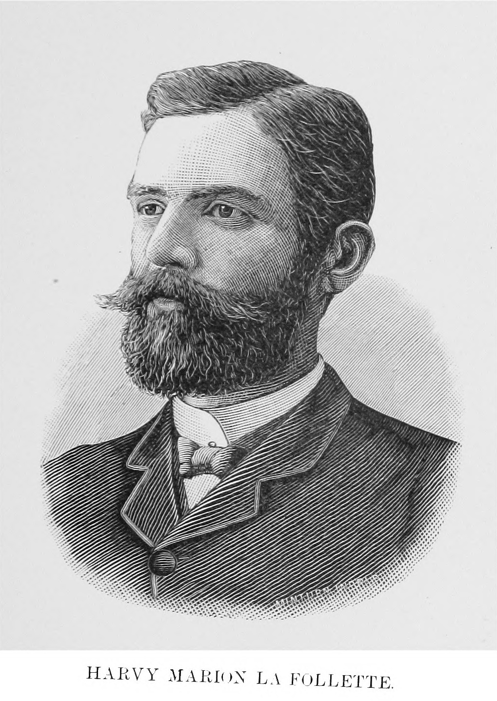 Portrait of Harvy Marion La Follette